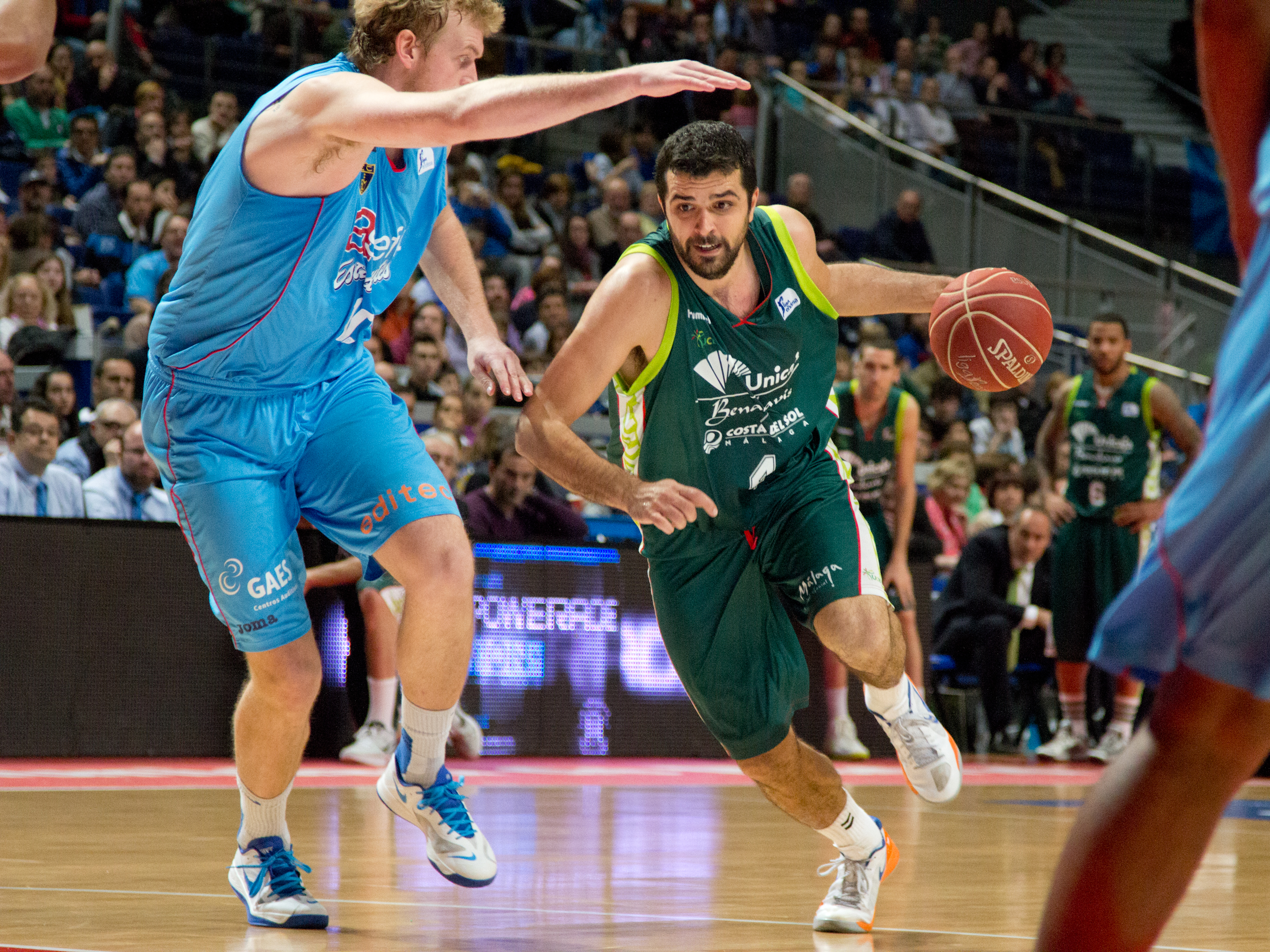 Krunoslav Simon y Daniel Clark. Game Estudiantes vs Unicaja Málaga.